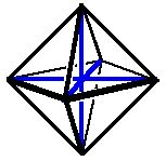 Laban choreutics space harmony dimensions in octahedron scaffolding